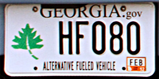 Close up view of Georgia's Alternative Fuel Vehicle (AFV) license plate which grants access by solo drivers to the HOV lanes